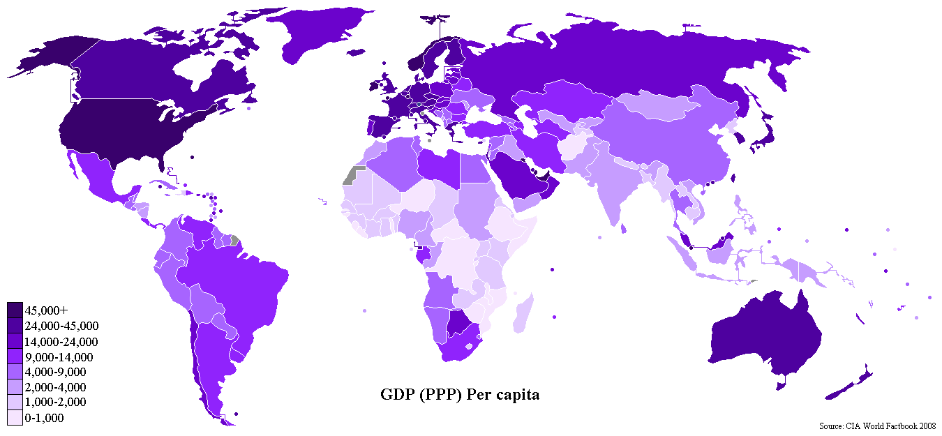 World map of GDP PPP Per Capita using CIA World Factbook 2007 data